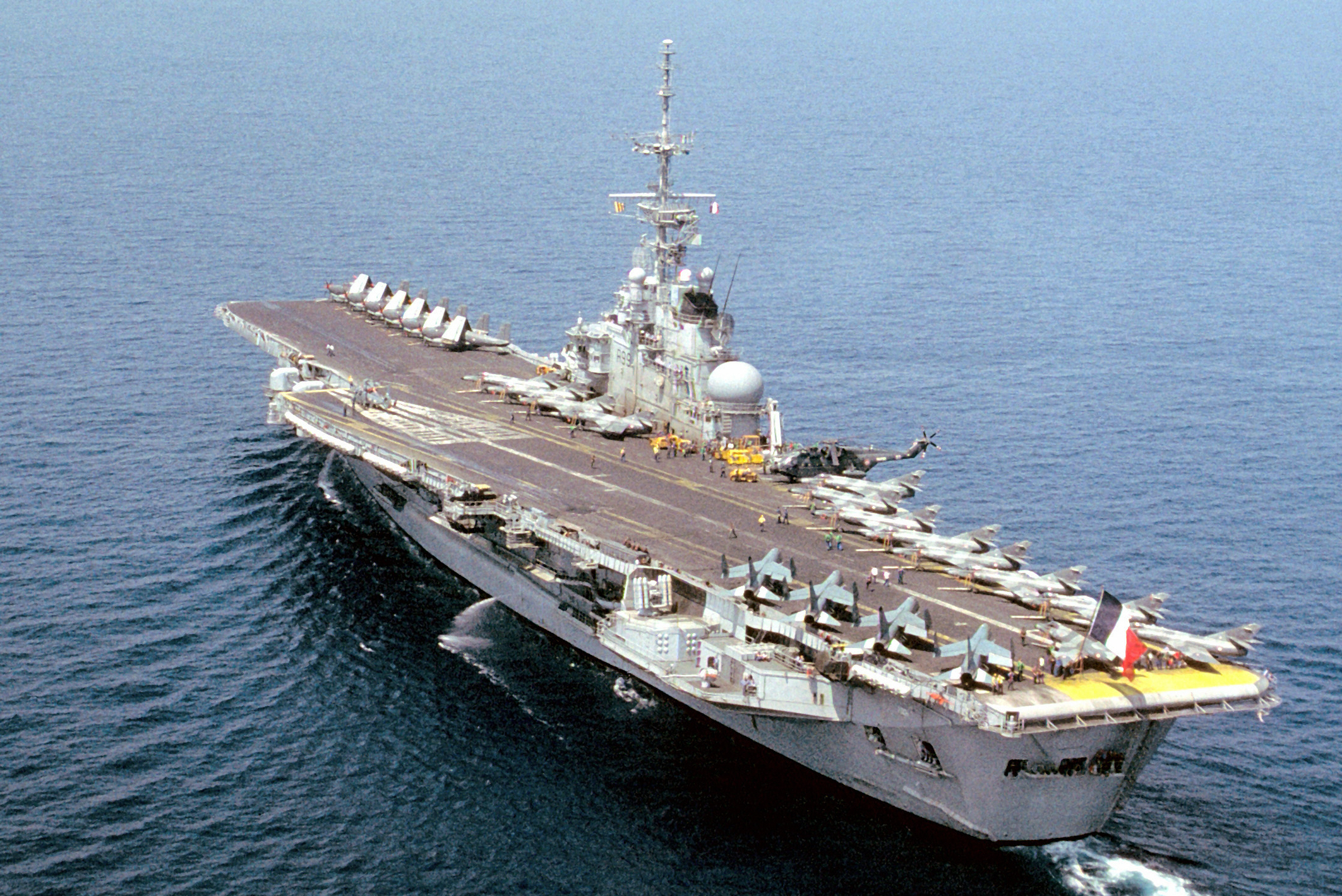 A port quarter view of the French navy's aircraft carrier Foch (R-99) underway during exercise Dragon Hammer '92.